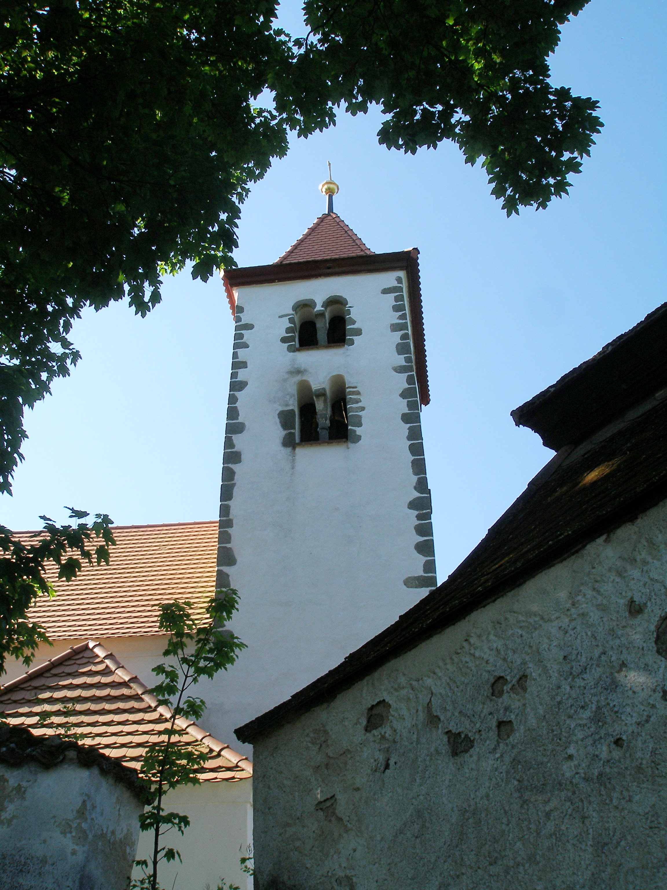 Újezdec - the northern view of the church tower